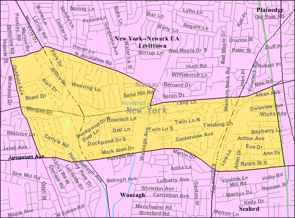 Borders of North Wantagh, NY hamlet/CDP